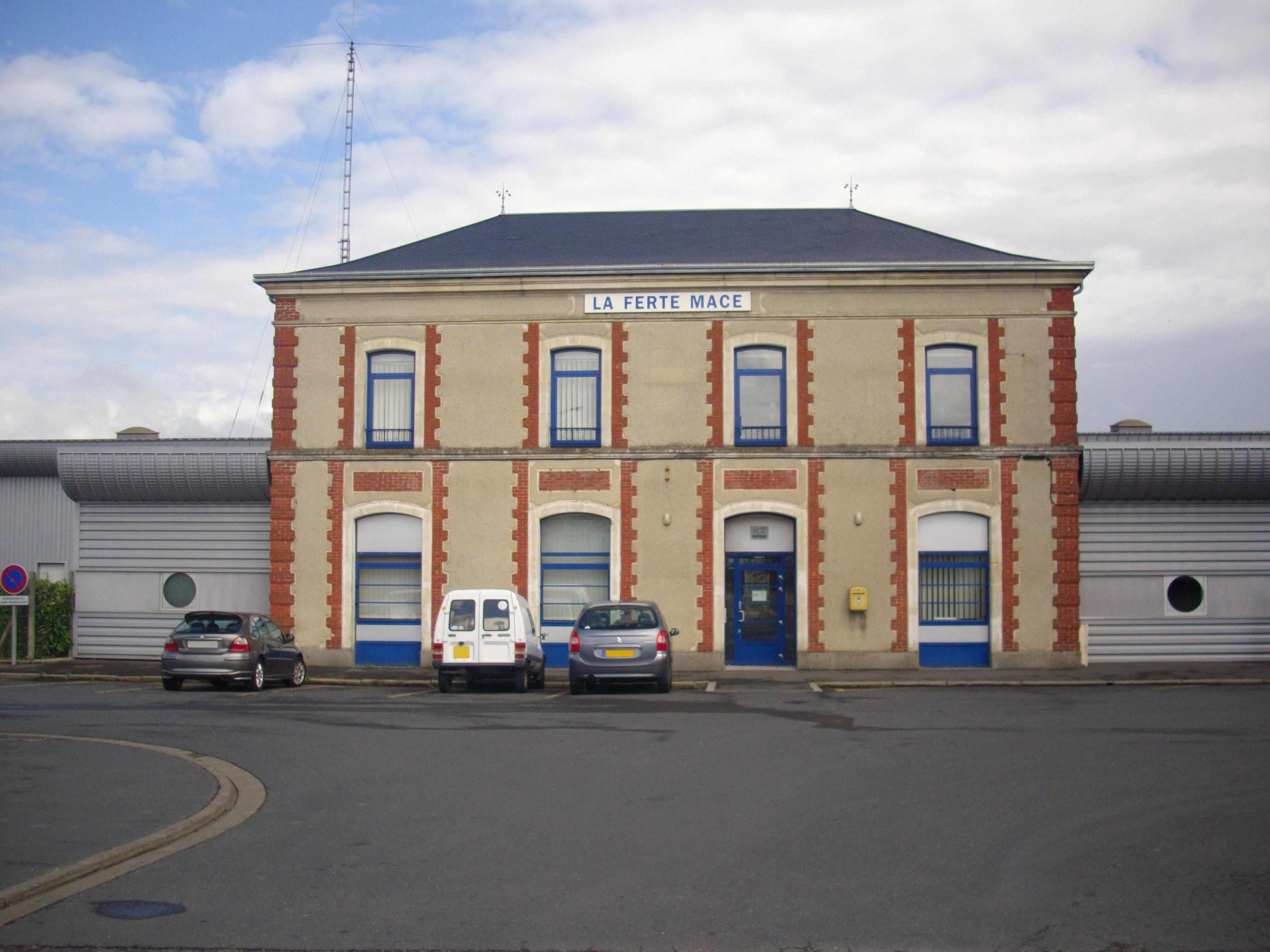 Railway Station, La Ferté-Macé (Basse-Normandie, France)